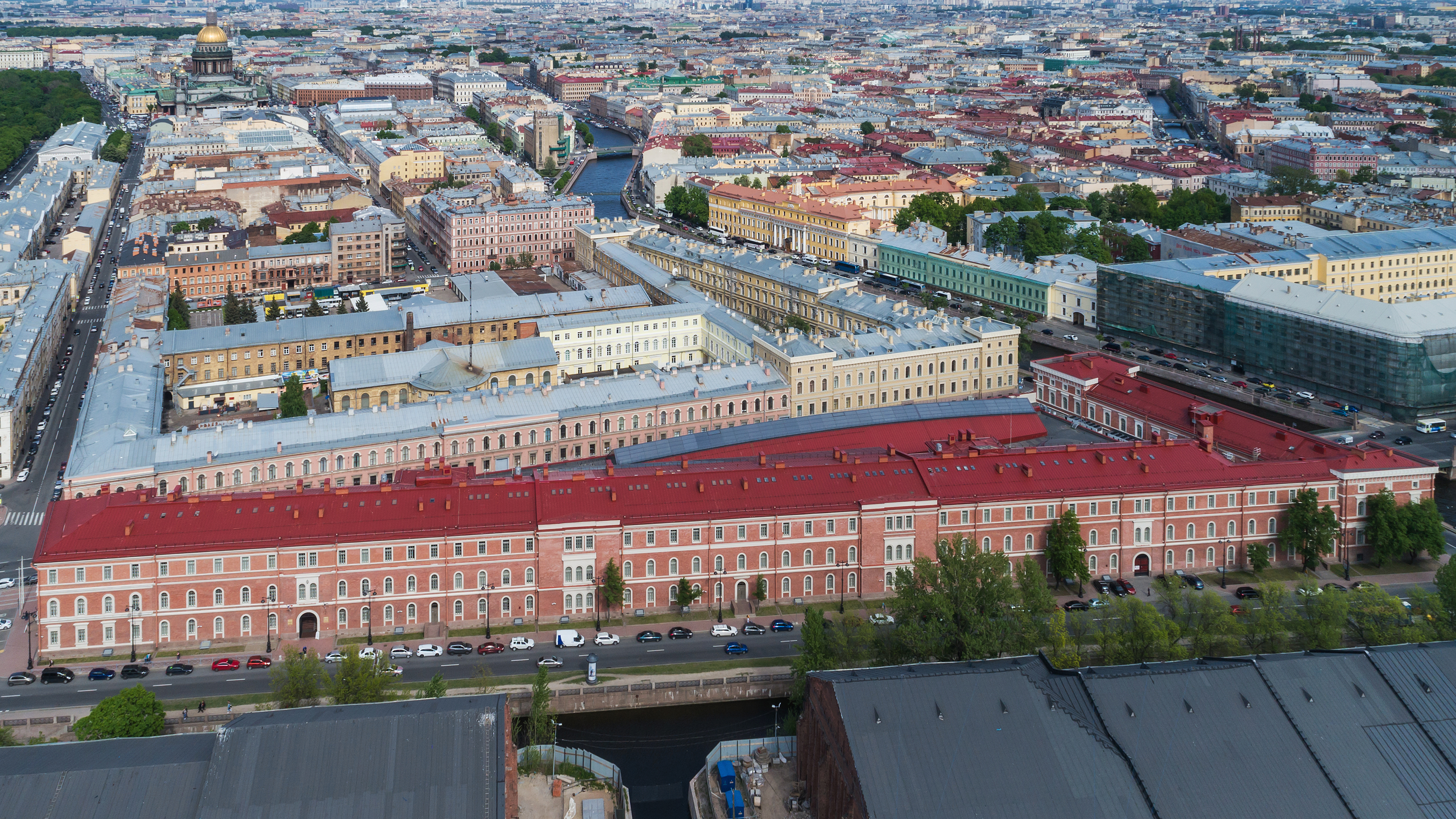 Aerial photo of Kryukovskiye Barracks (Central Naval Museum) in Saint Petersburg (Russia).